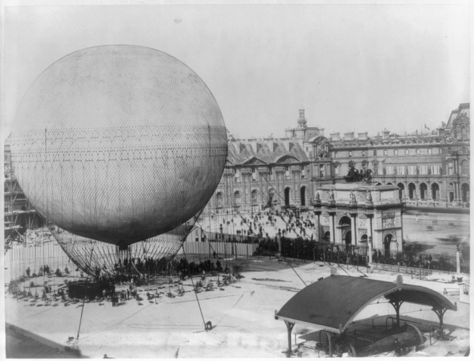 Henry Gifford's (Henri Giffard's) balloon before ascension, 1878. Photo taken from the ruins of the Tuileries Palace, showing the Tuileries courtyard, the Arc de Triomphe du Carrousel, the Place du Carrousel and the north wing of the Louvre Palace.